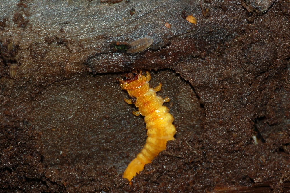 Pyrochroa, Nied, Frankfurt/Main, Germany